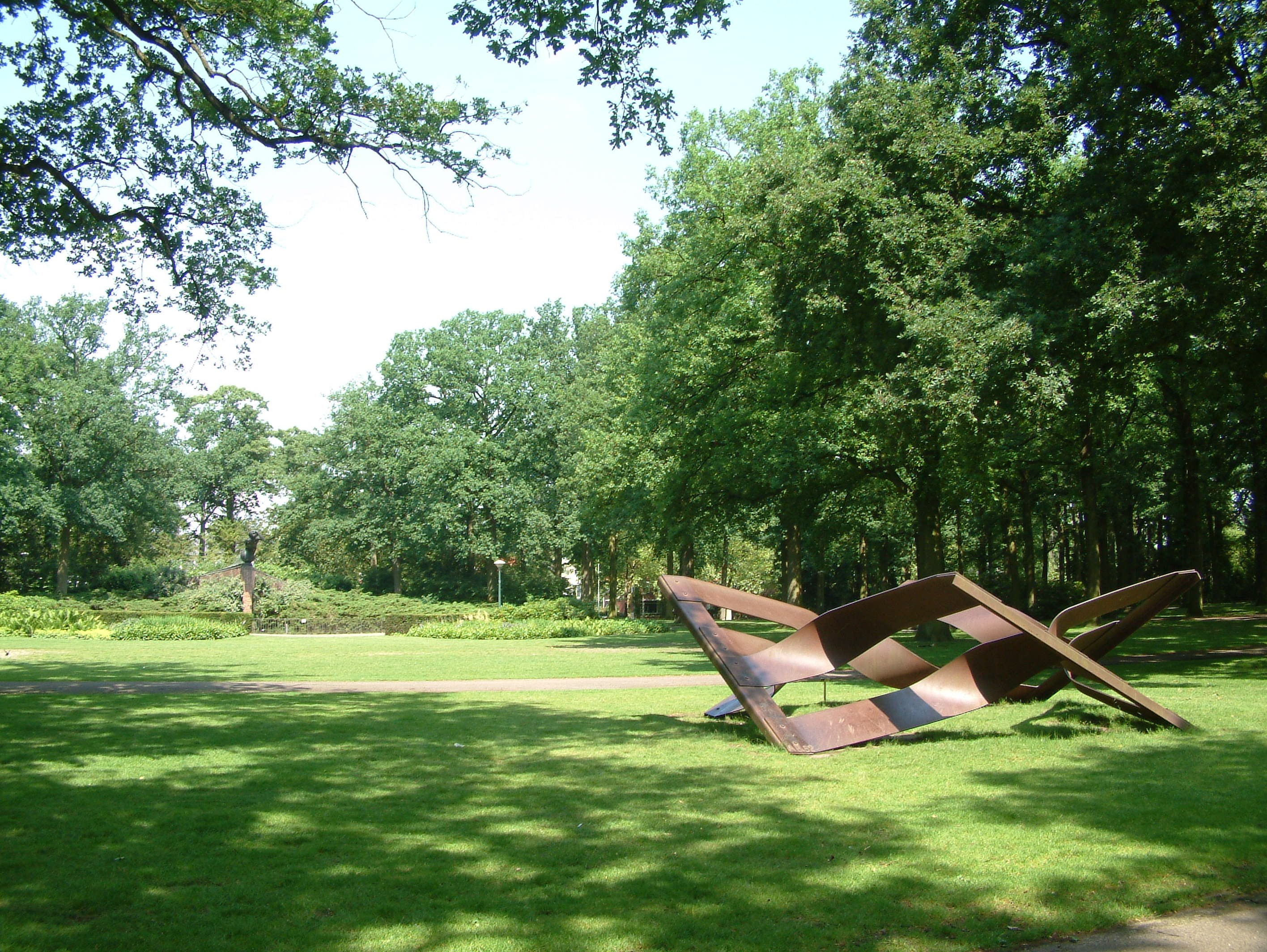 sculpture Vlaggen (1982) by Arie Berkulin in Eindhoven/The Netherlands